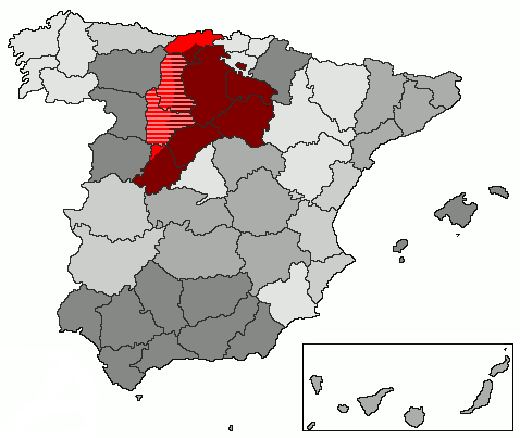 Old Castile along the History